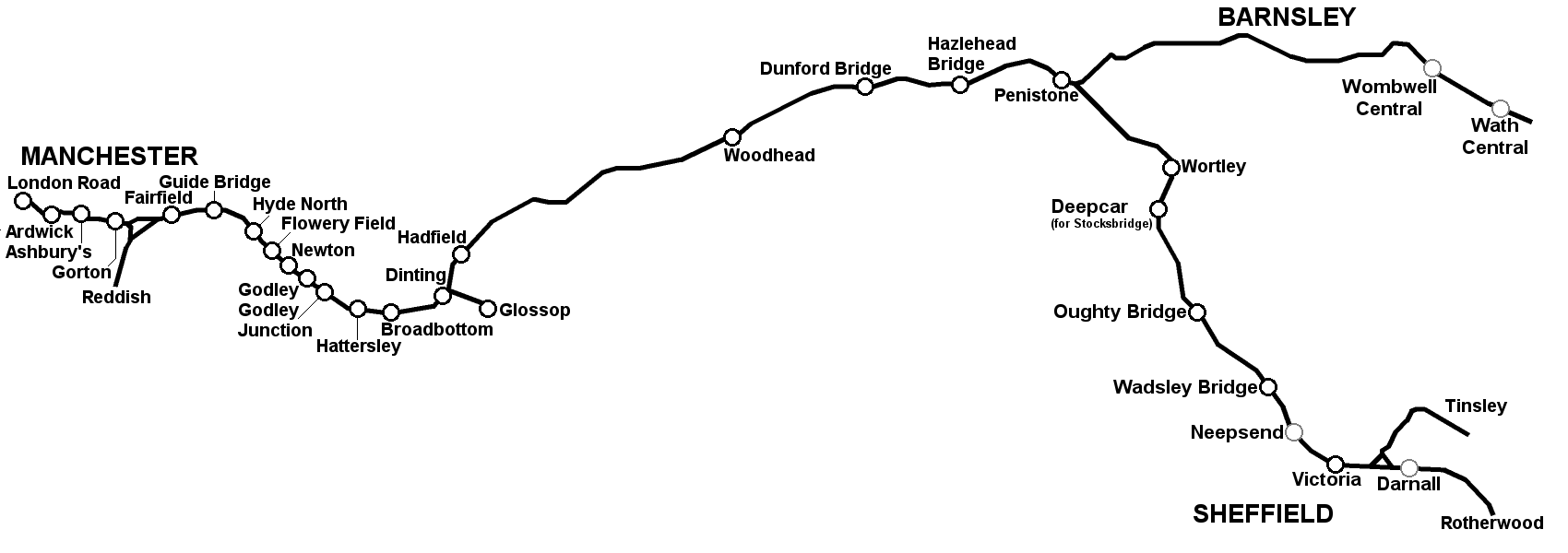 Plan of the Woodhead Line.